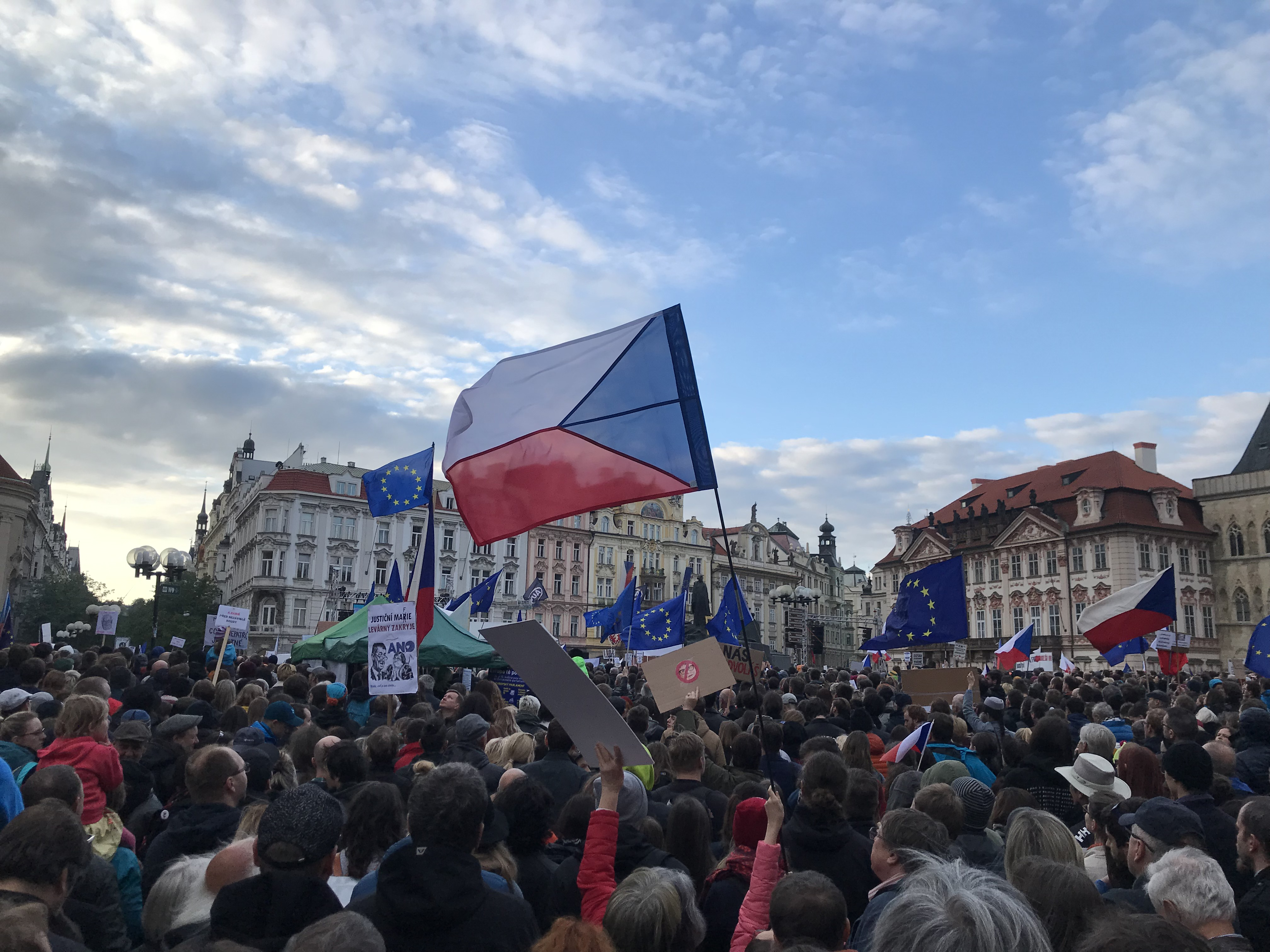 Demonstration at Old Town Square, Prague – Demonstration for independent justice (Demonstrace za nezávislou justici / Demonstrace za nezávislost justice) anti Marie Benešová and Andrej Babiš